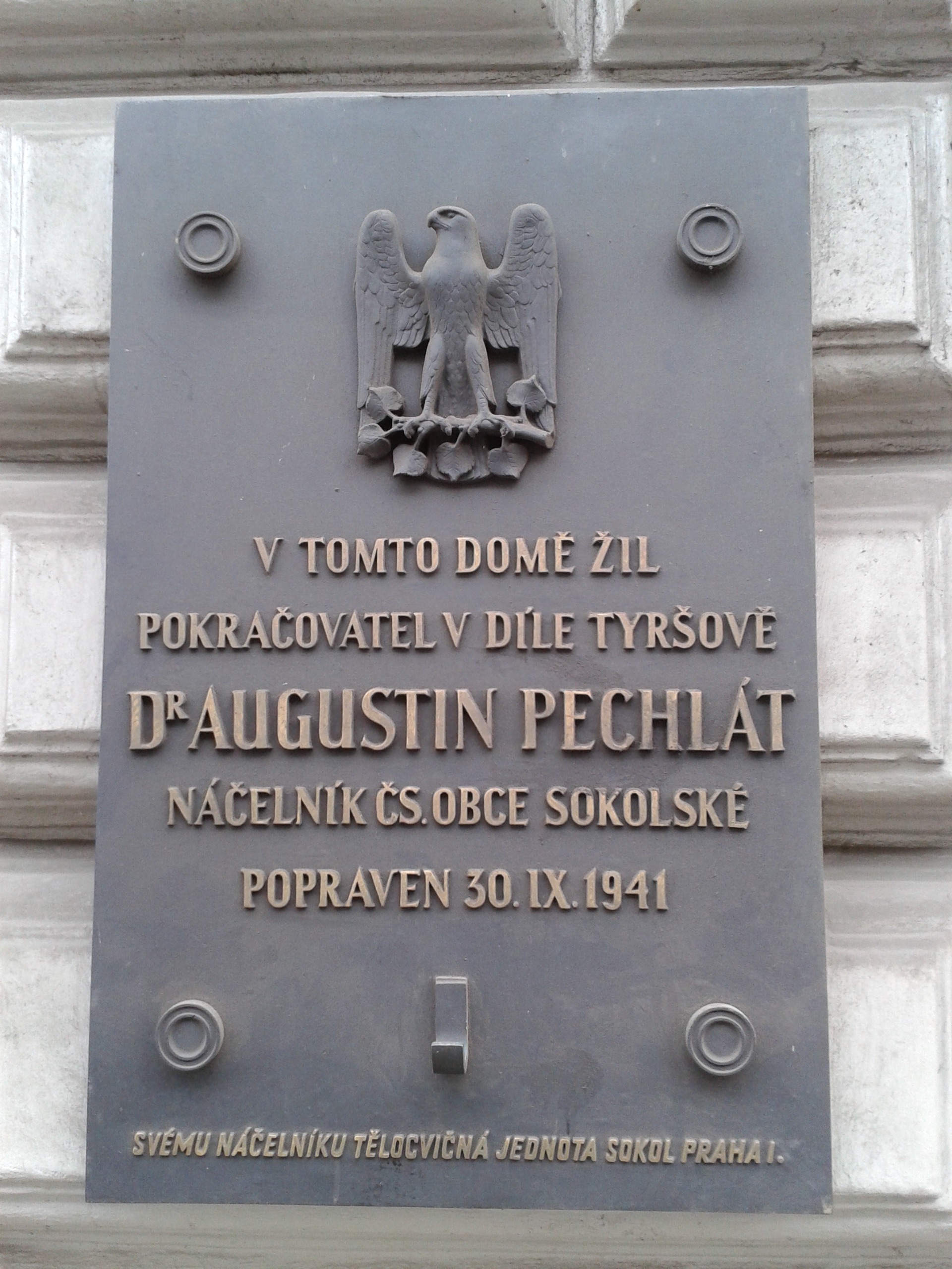 The memorial plaque dedicated to Dr. Augustin Pechlát (* 1877 - 1941). He was one of the main members of Sokol organisation, participant on anti-German resistance movement during the Protectorate, publicist and pedagog. The plate is placed on the house at Prague 1, street Revoluční 1247/26, Czech Republic.